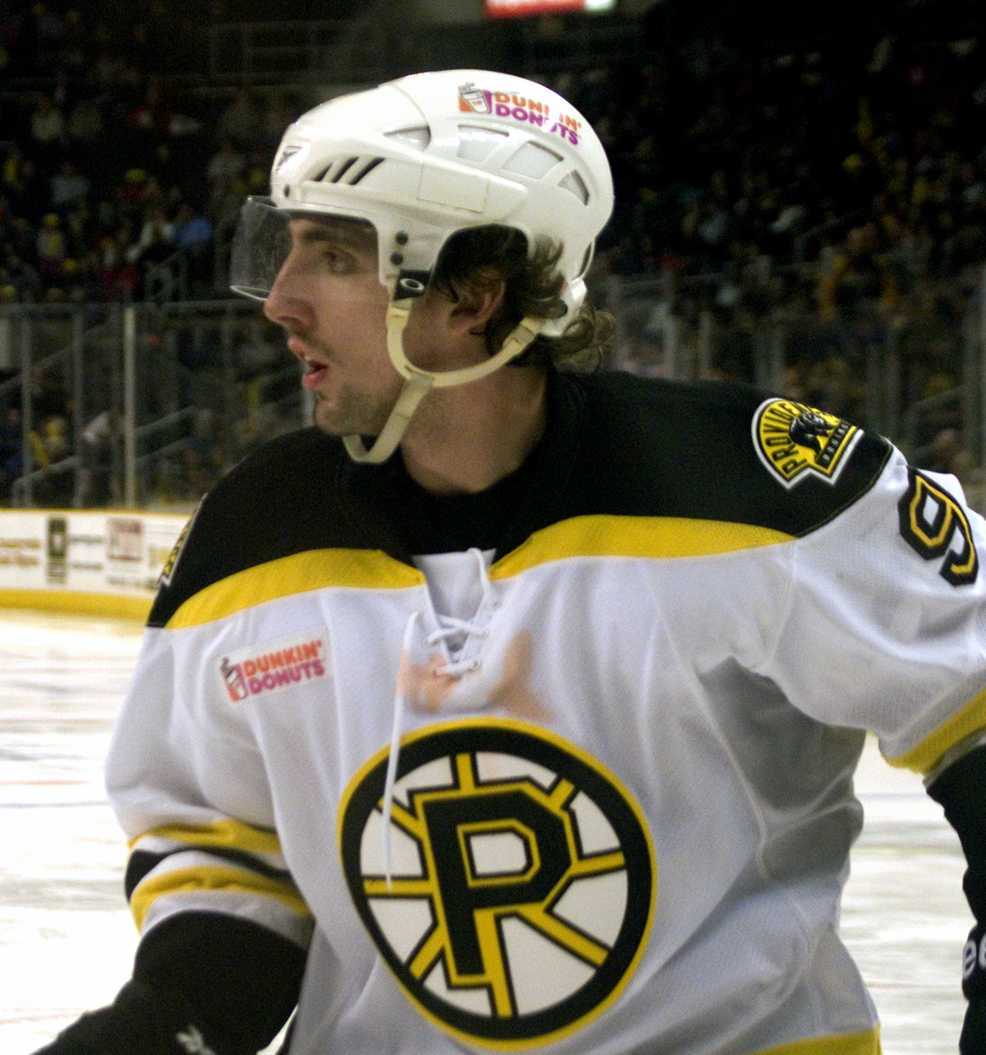 Zach Hamill during Providence Bruins vs. Binghamton Senators game on January 9, 2011.